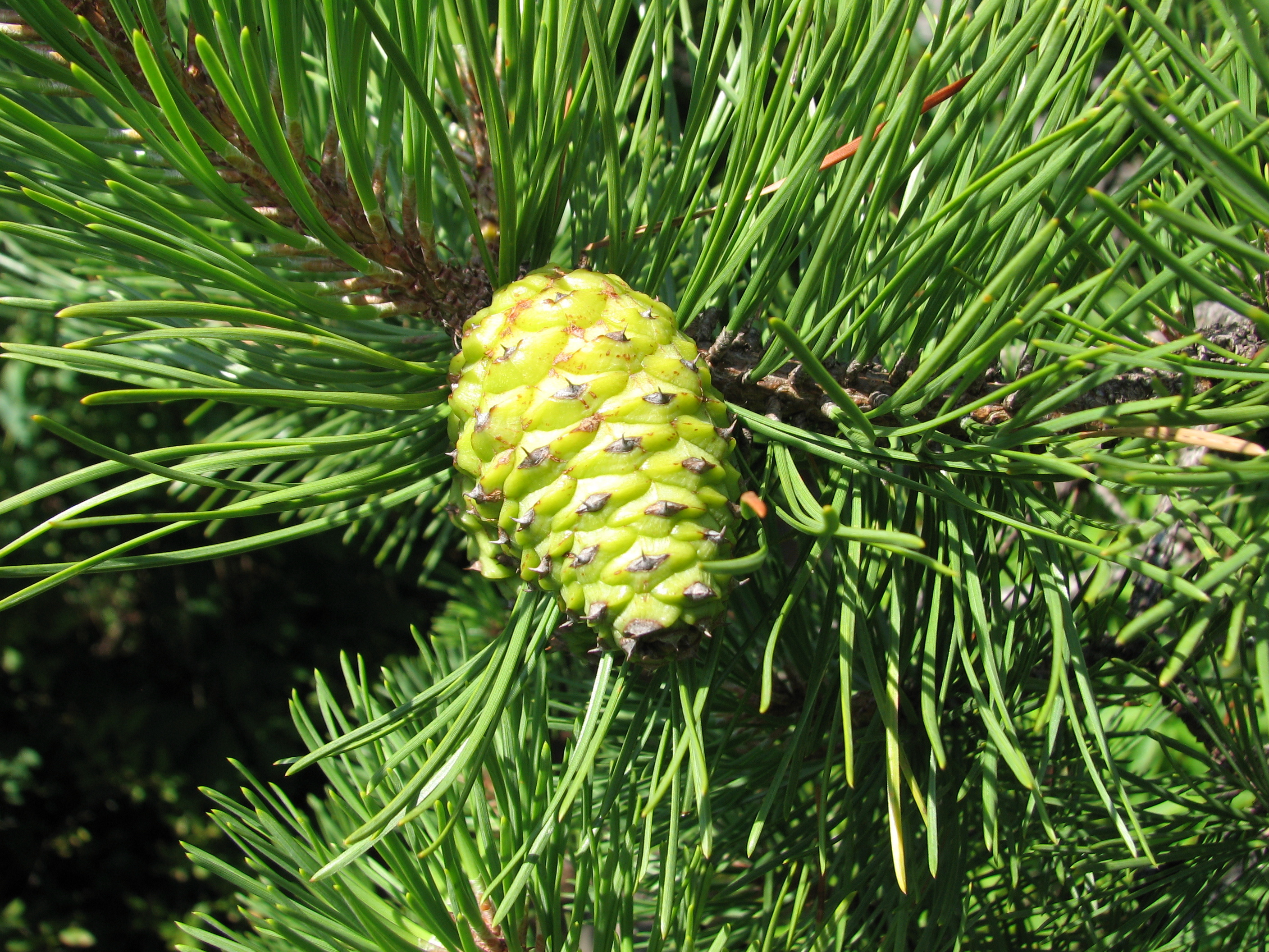 Pitch Pine Pinus rigida cone. Linville, North Carolina, USA 36°4'07"N 81°50'33"W, 1260m altitude.